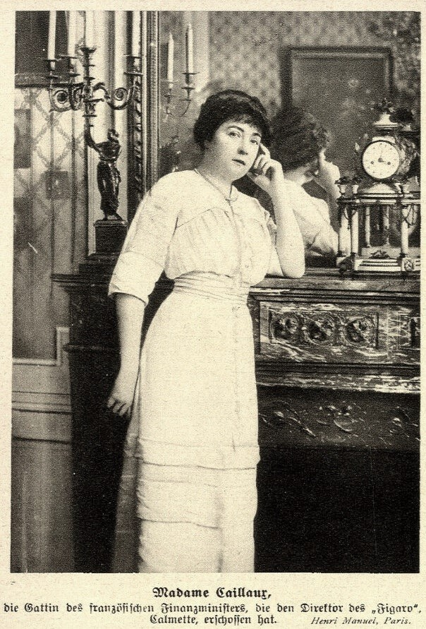 Henriette Caillaux c. 1914